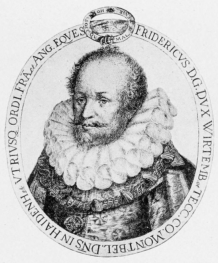 Elizabethan ruffs.